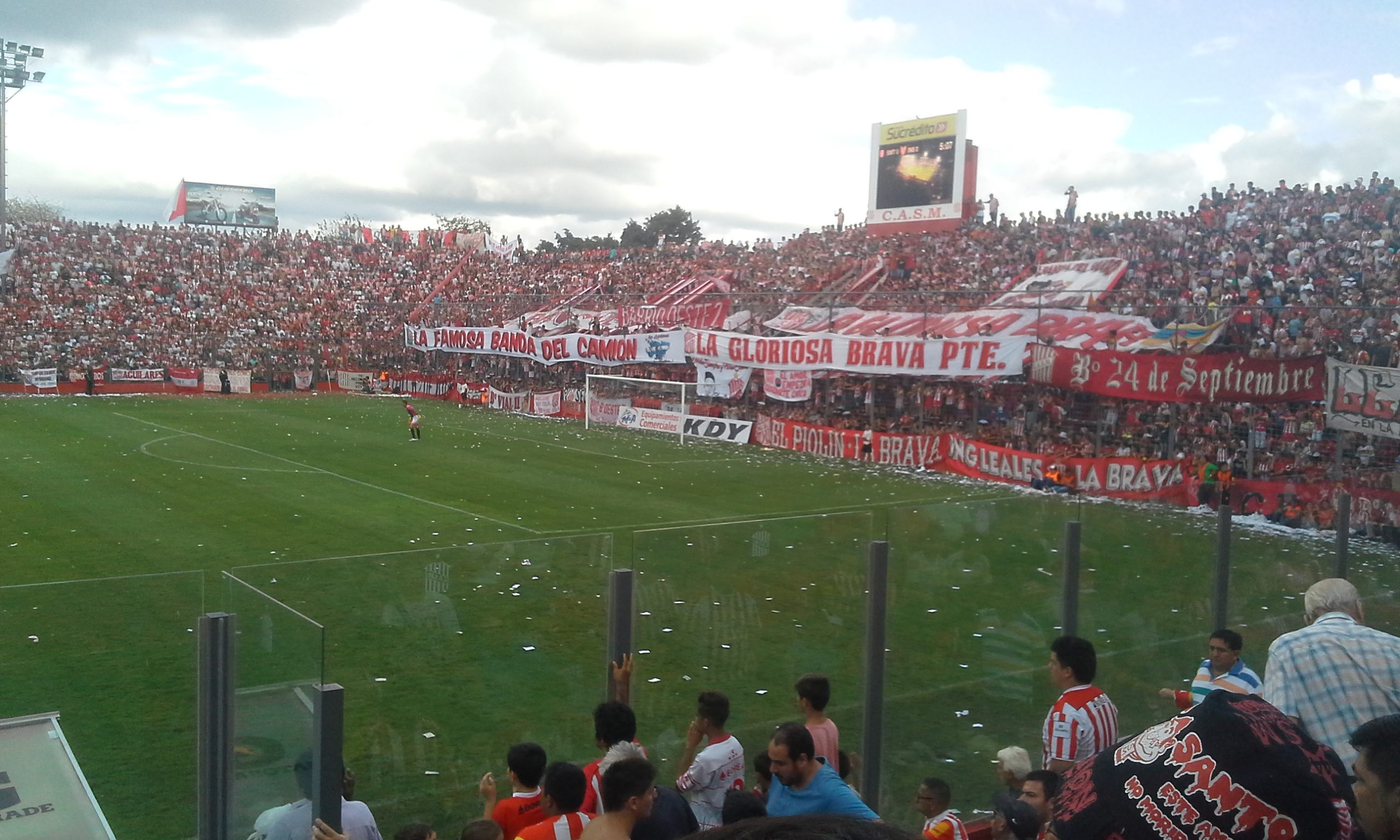 san martin tuc